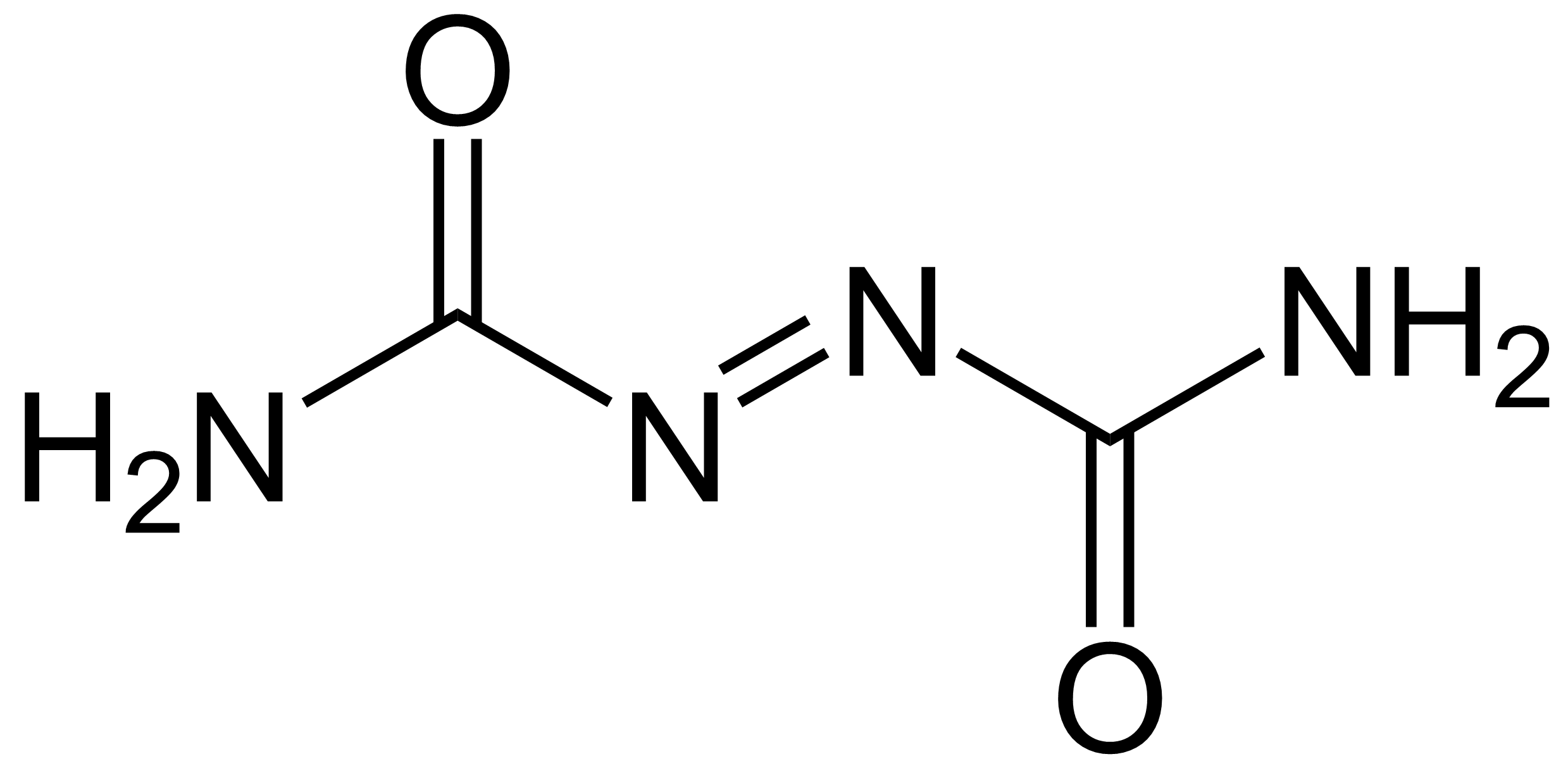 Chemical structure of azodicarbonamide